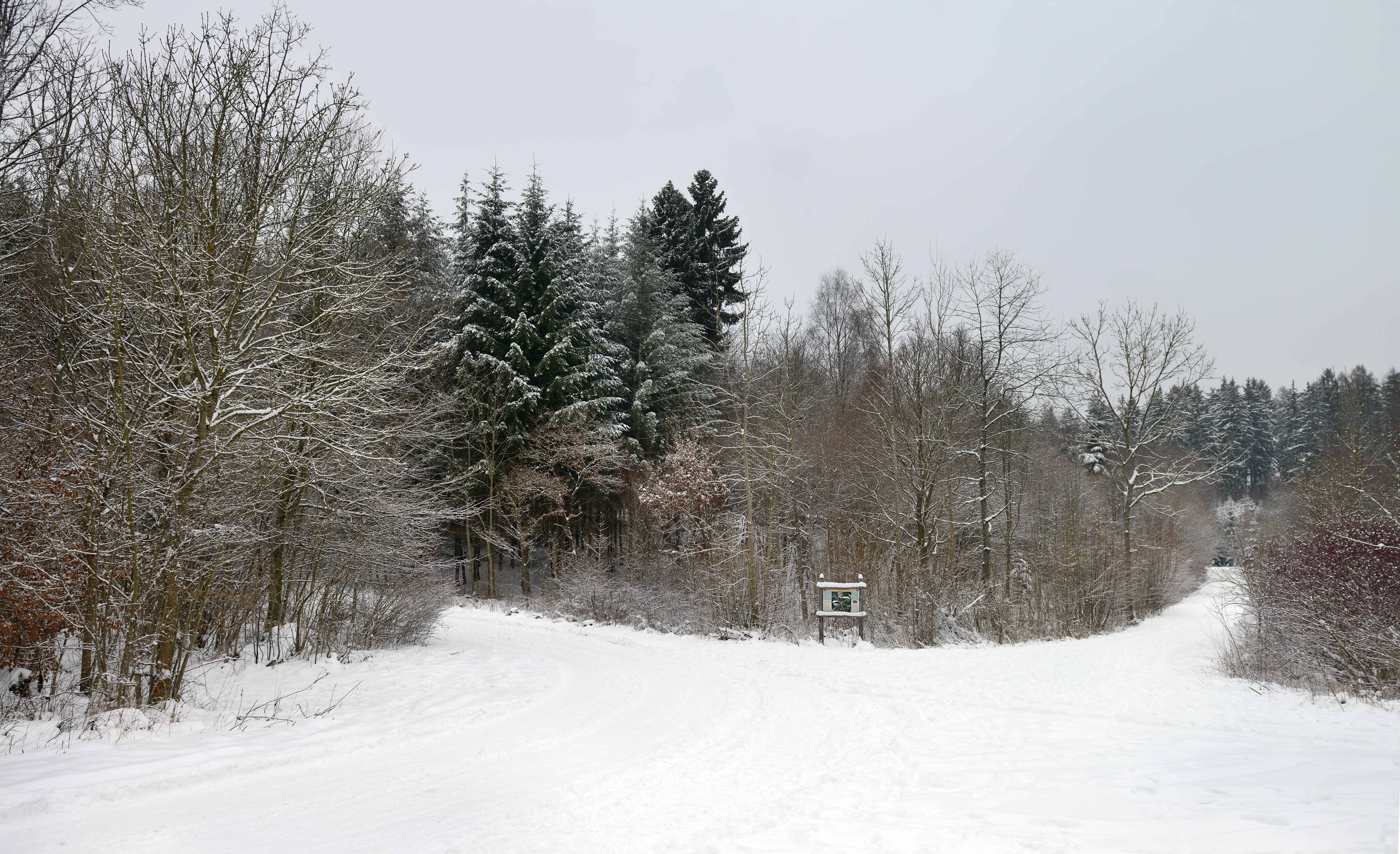 The lieu-dit called Rendez-vous in the forest of Grunewald, northeast of Luxembourg City, where five forest trails, coming from Senningerberg, Findel, Kirchberg, Waldhof and Bëschhaus join.